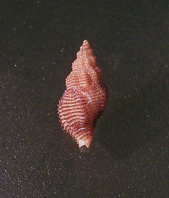 Orania walkeri (Sowerby, 1908) , a murex snail from the family Muricidae; Philippines